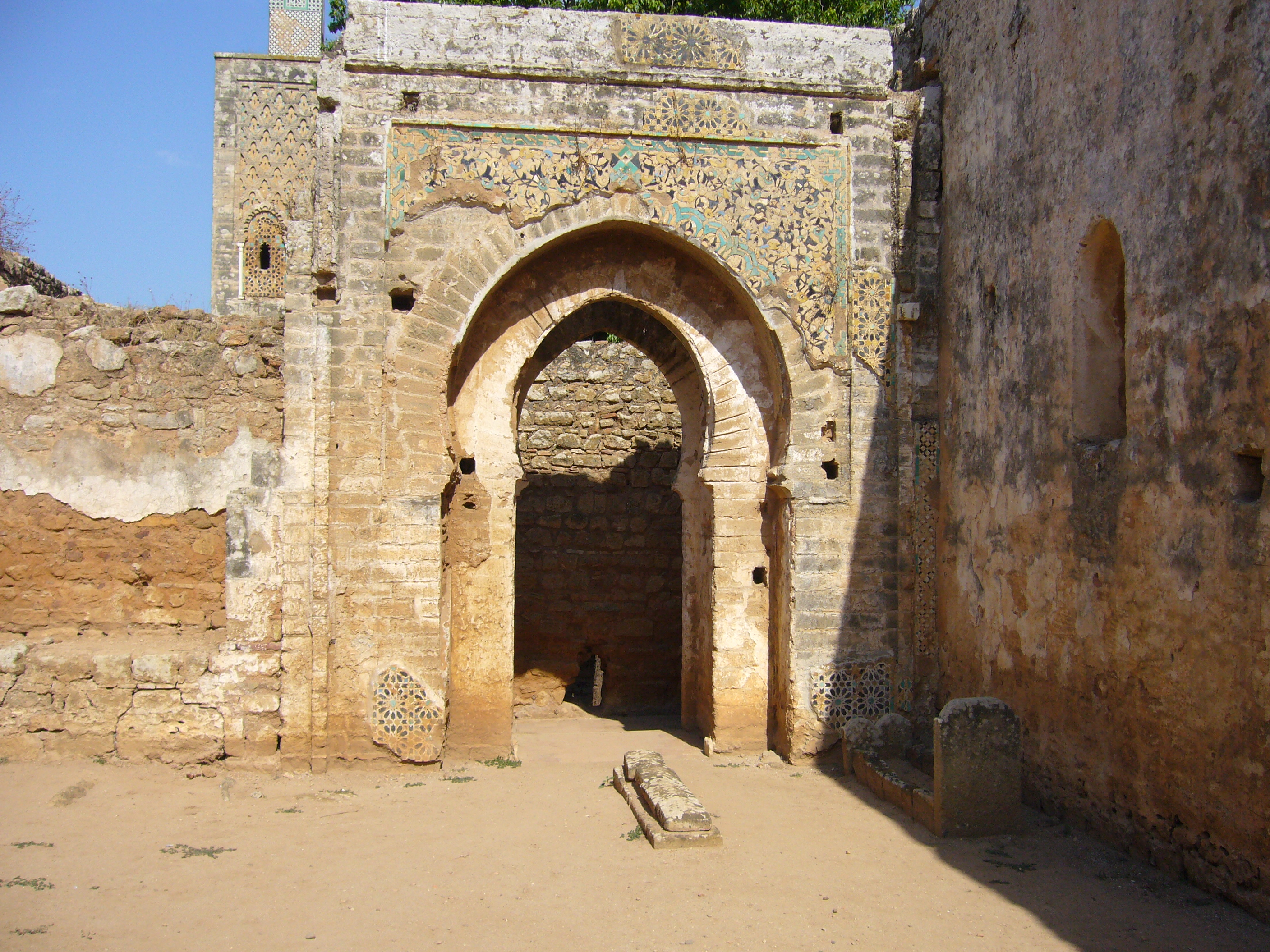 Ruinous mausoleum of Marinid sultans